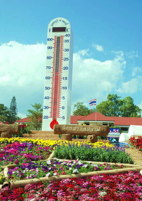 Amphoe Phu Ruea